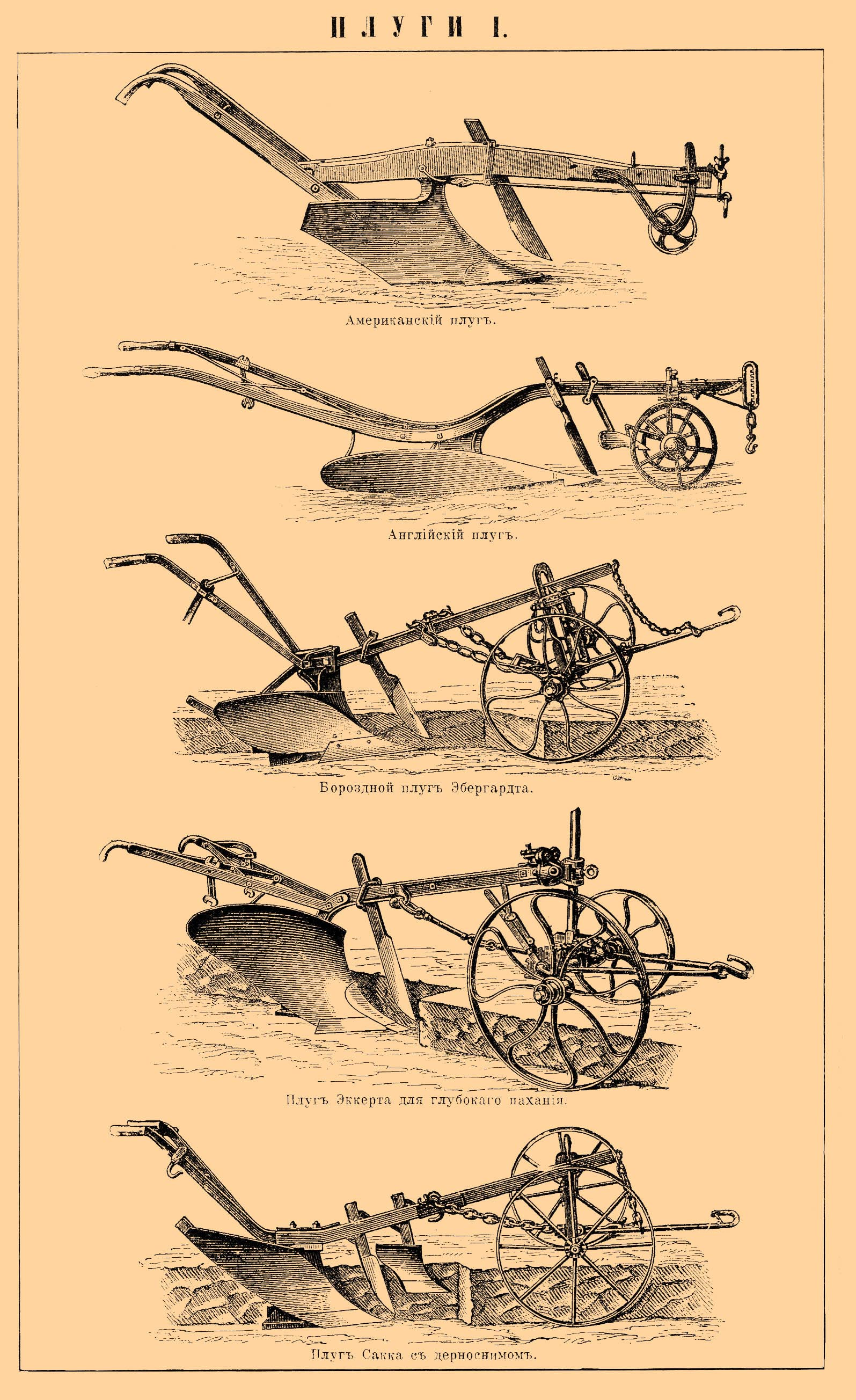 Illustration from Brockhaus and Efron Encyclopedic Dictionary (1890—1907)